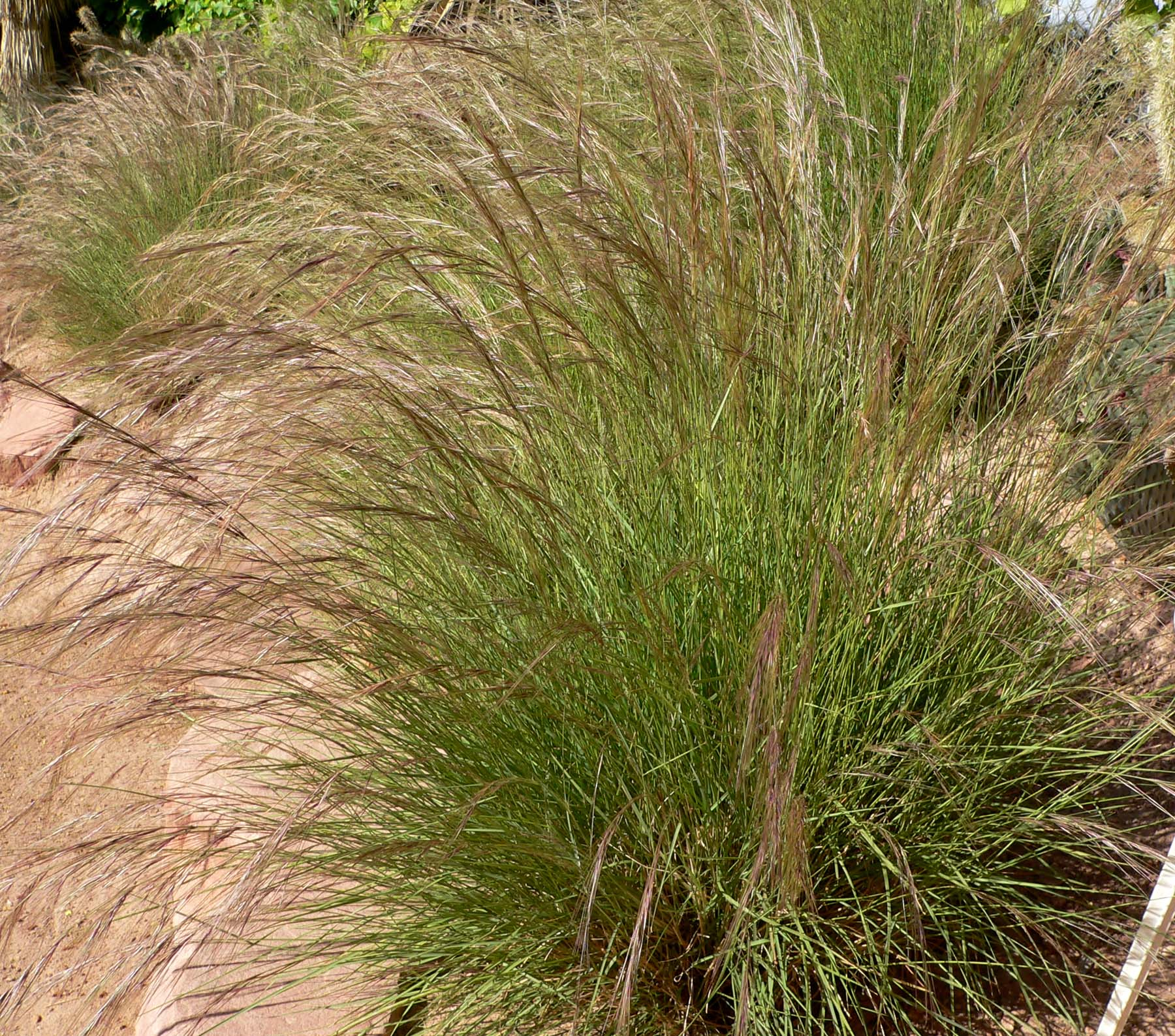 Photo of Aristida purpurea at the Springs Preserve garden in Las Vegas, Nevada